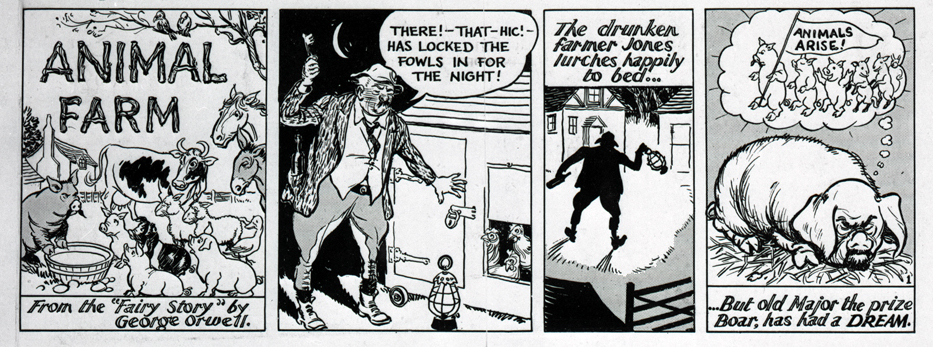 Description: Foreign Office copy of first installment of Norman Pett's Animal Farm comic strip. In 1950 the Foreign Office commissioned a strip cartoon version of Animal Farm from the cartoonist Norman Pett and his writing partner Donald Freeman. Various embassies then encouraged overseas newspapers to publish the anti-communist strip. It was translated into a number of languages and also turned into a slide show for public performance. Date: 1950 Our Catalogue Reference: FO 1110/319 This image is from the collections of The National Archives. Feel free to share it within the spirit of the Commons. For high quality reproductions of any item from our collection please contact our image library.